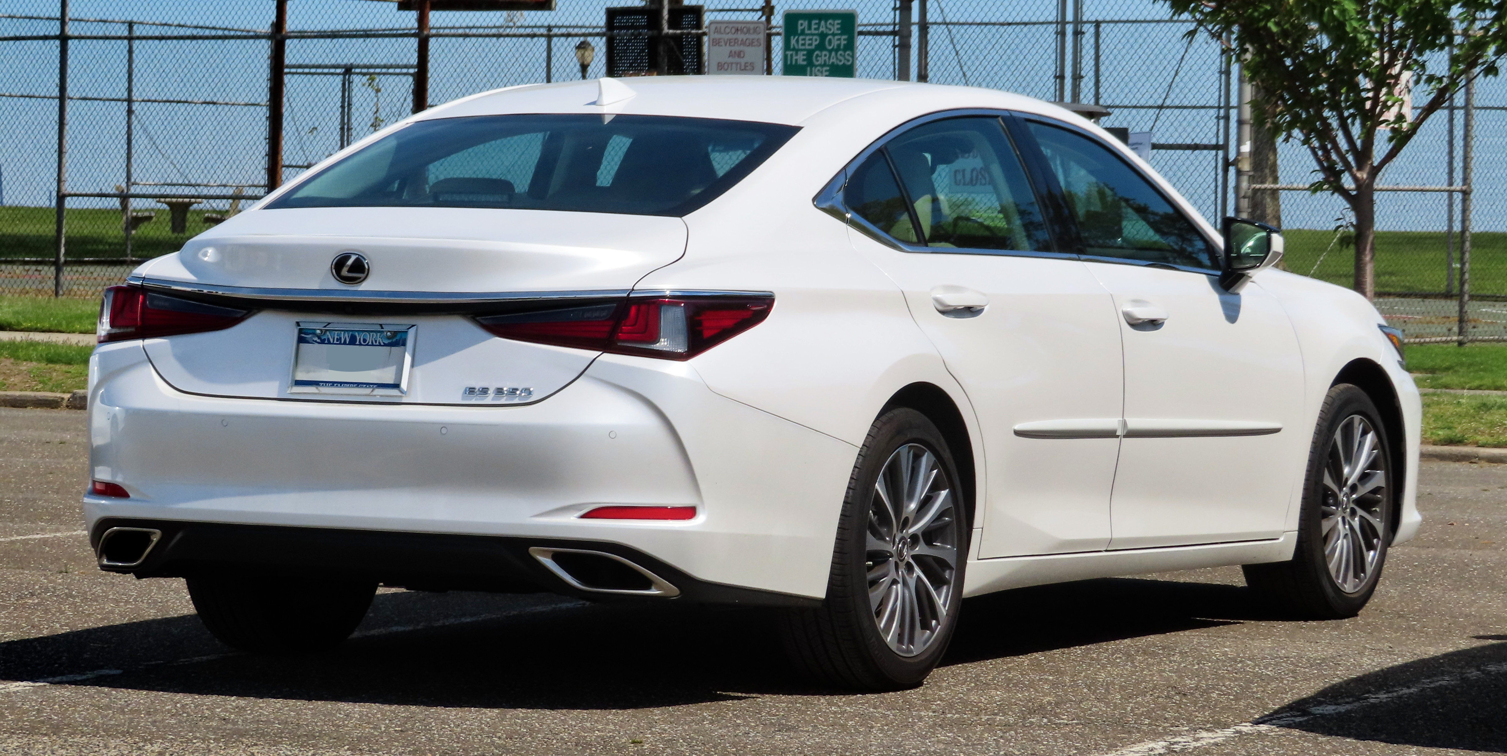 A 2019 Lexus ES 350 photographed at North Hempstead Beach Park, in North Hempstead, New York, USA